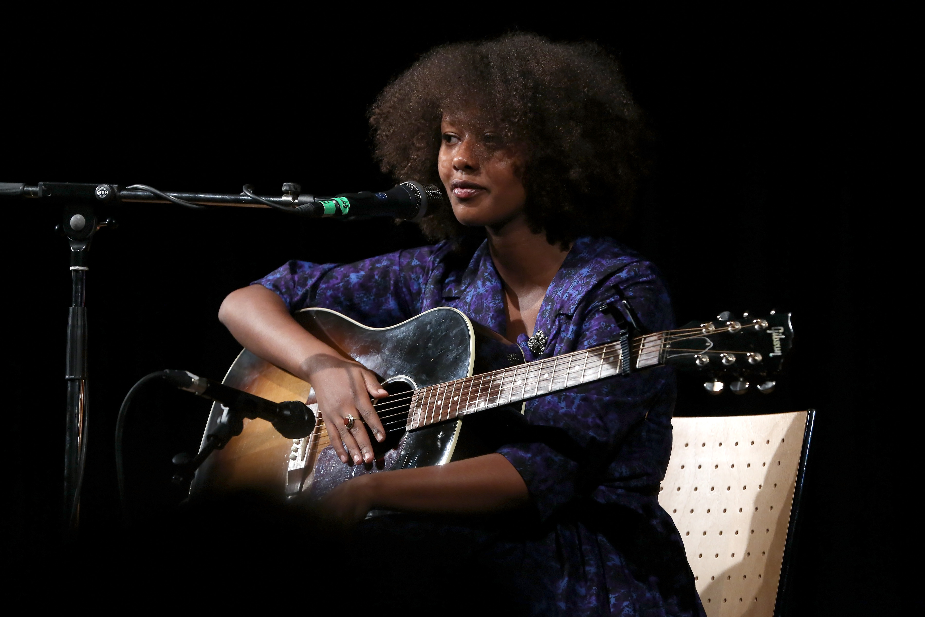 Mirel Wagner, concert at Haus der Musik during Waves Vienna Music Festival & Conference 2014 in Vienna, Austria.